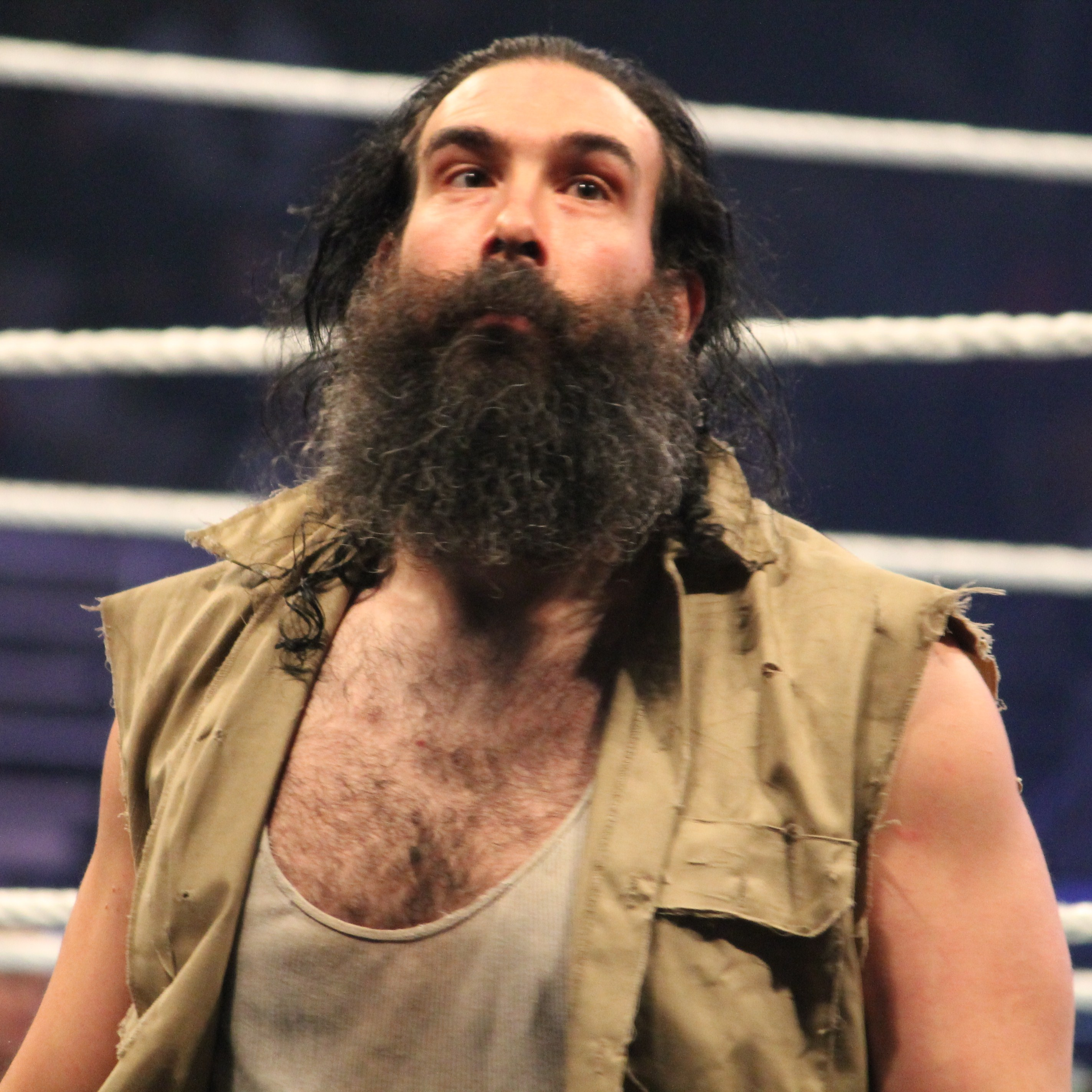 Luke Harper at the post-WrestleMania SmackDown tapings on 8 April 2014 in Lafayette.